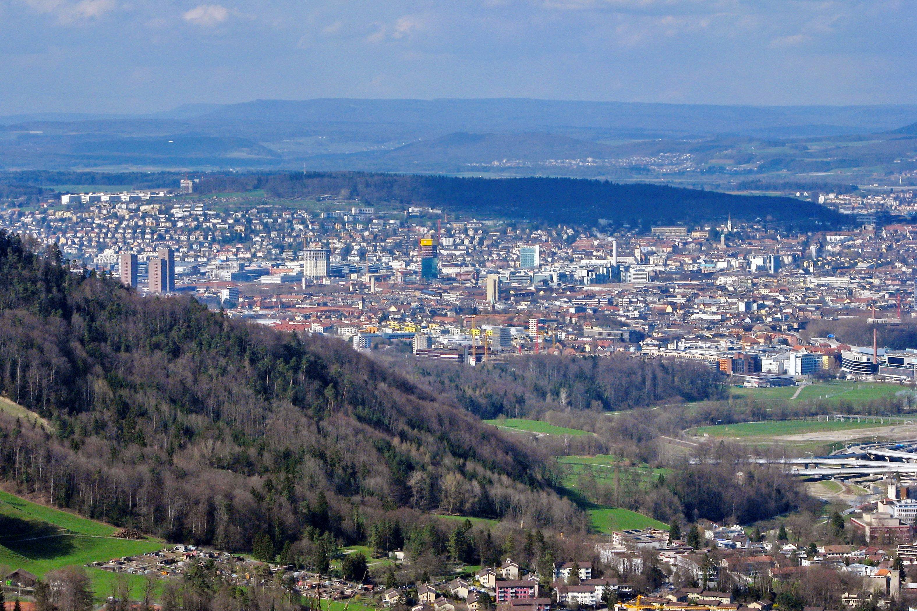 Käferberg, Limmattal and inner city of Zürich (Switzerland), as seen from Felsenegg.